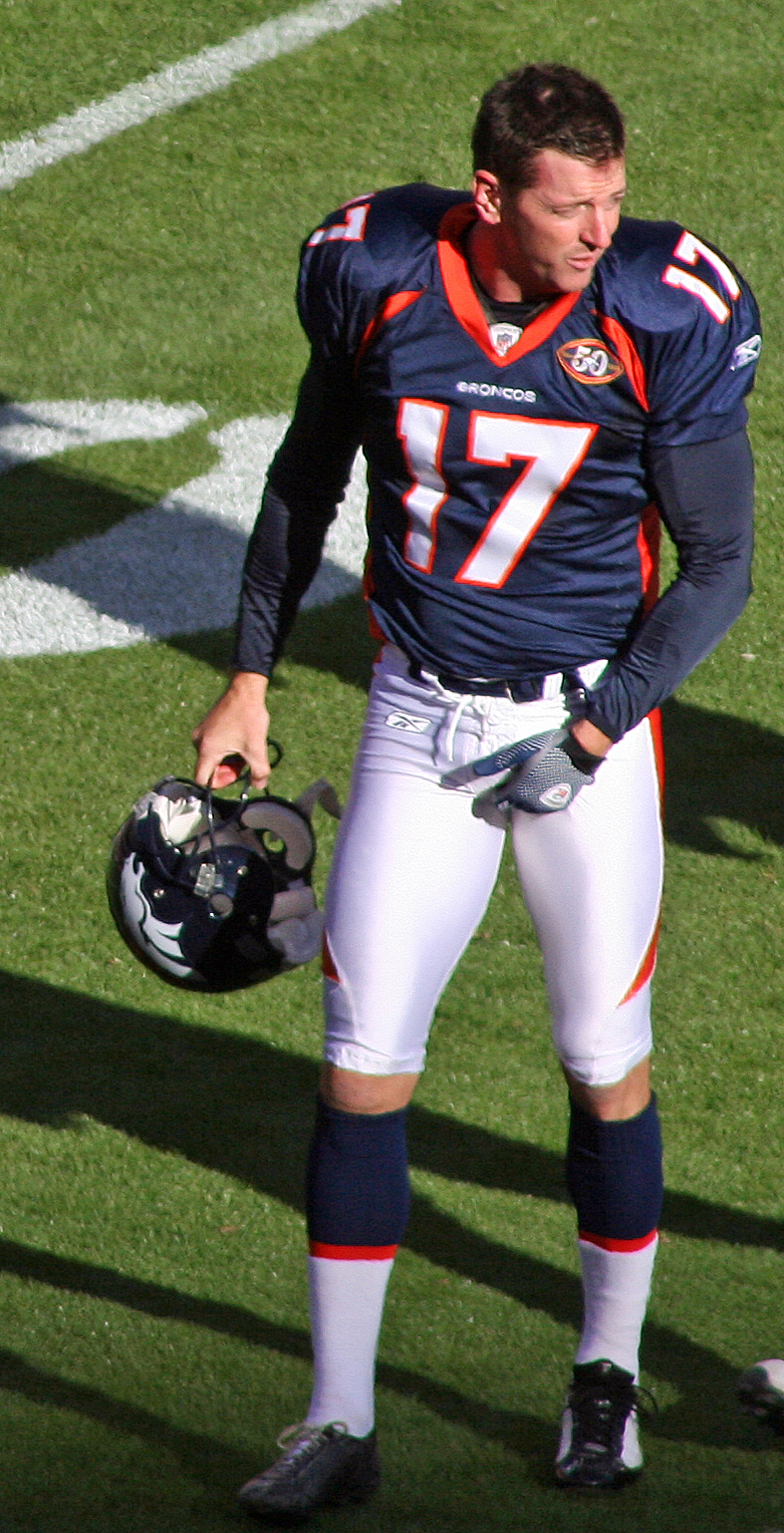 Mitch Berger, a punter on the Denver Broncos American football team.